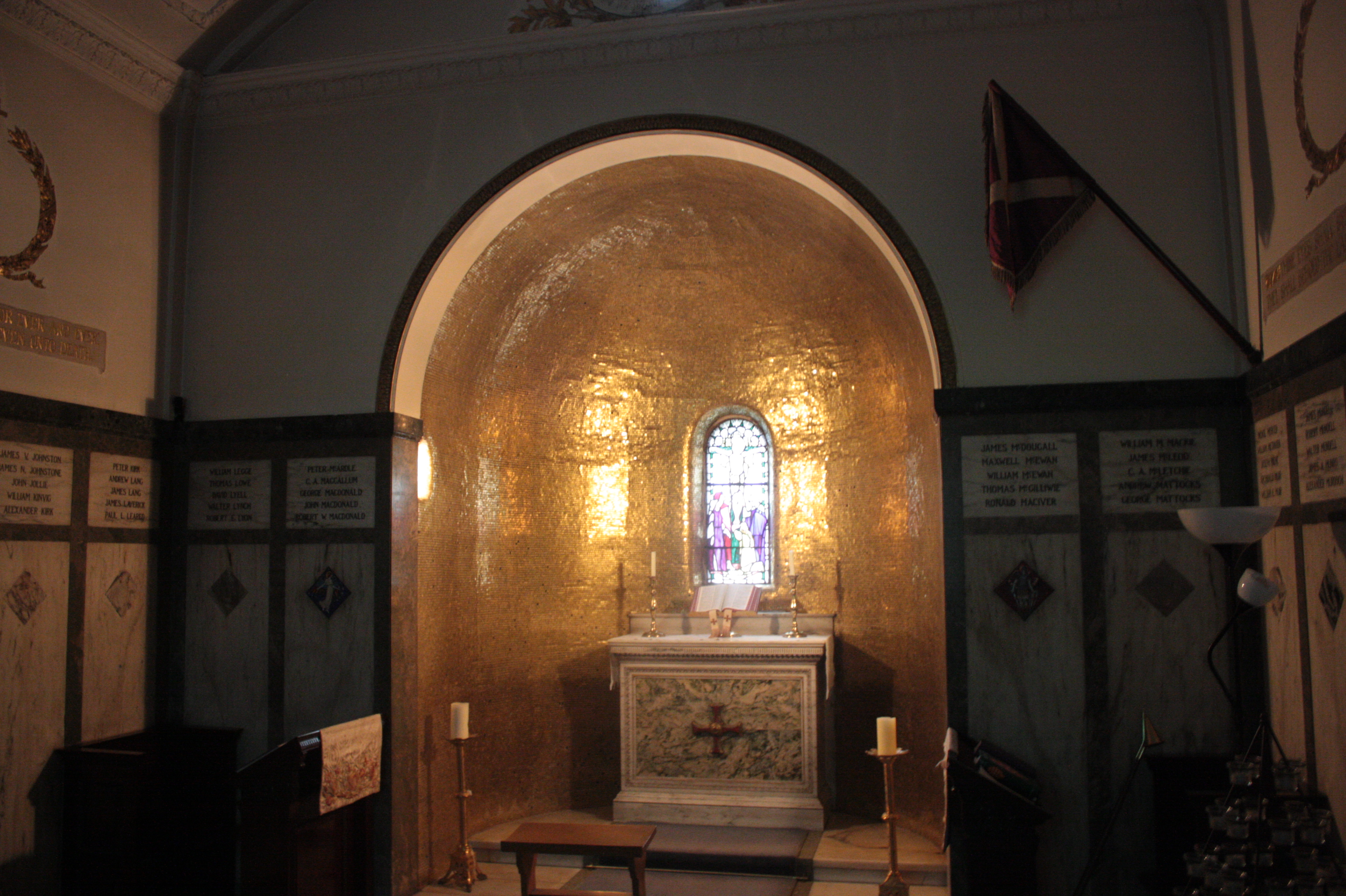 War Memorial Chapel, St Cuthberts, Edinburgh. This is the small side chapel where Agatha Christie remarried, the oldest part of St Cuthbert's church